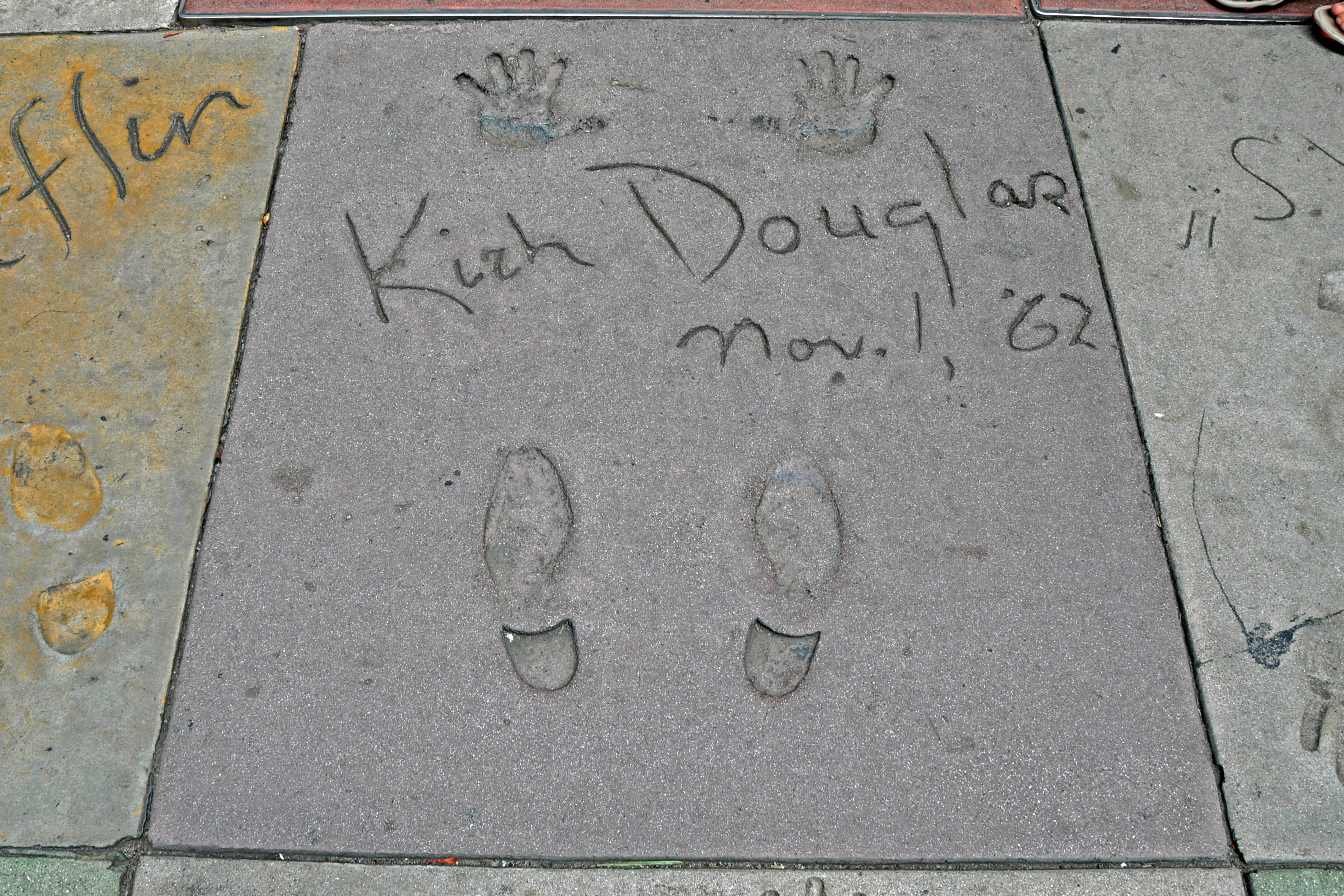 Impronte di Kirk Douglas al TCL Chinese Theatre di Los Angeles, USA, Agosto 2011